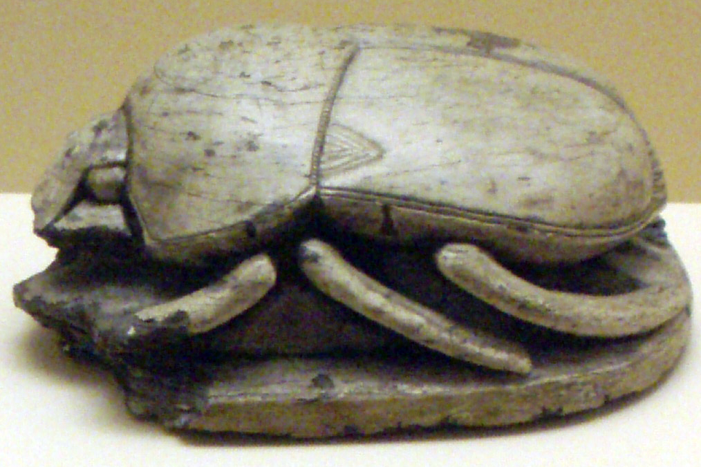 Large commemorative scarab of the Kushite Victory of the pharaoh Shabaka (also known as Shabako).